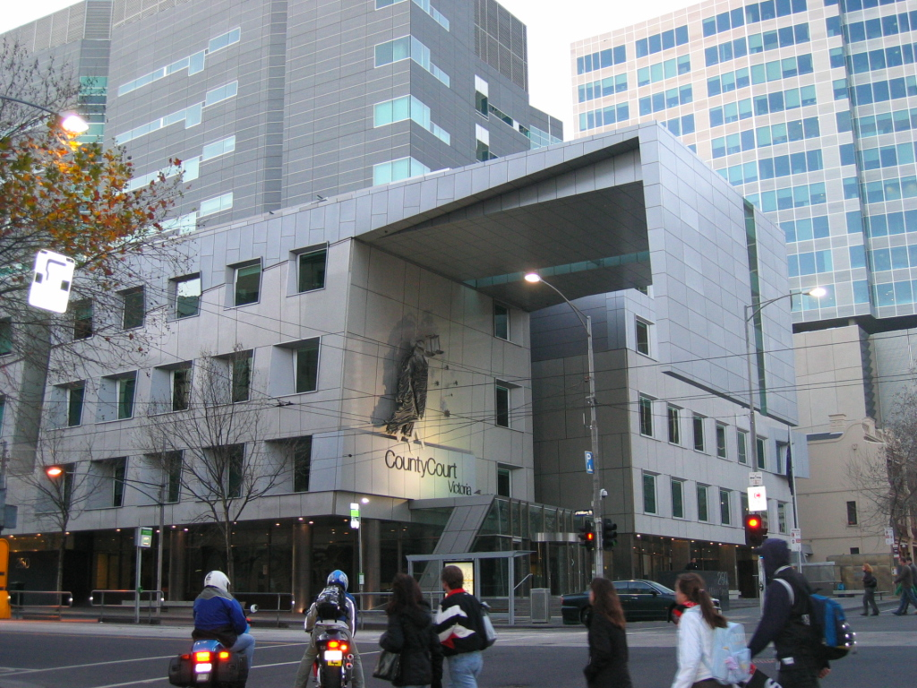 County Court of Victoria. Photo taken by User:Adz on 10 July 2005. Located on the corner of Lonsdale St and William St Melbourne, Australia.